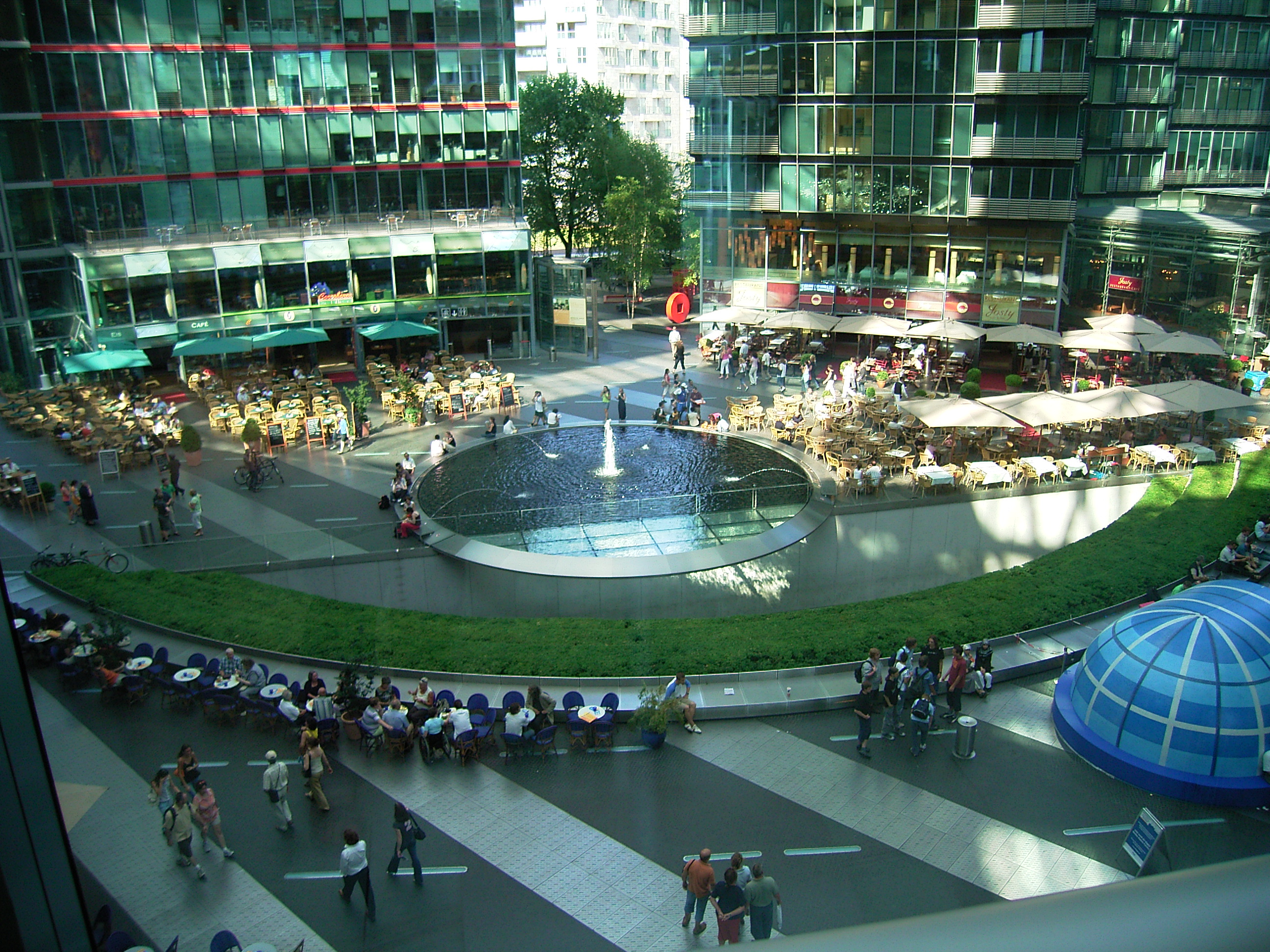 Interior of the Sony-Center in Berlin